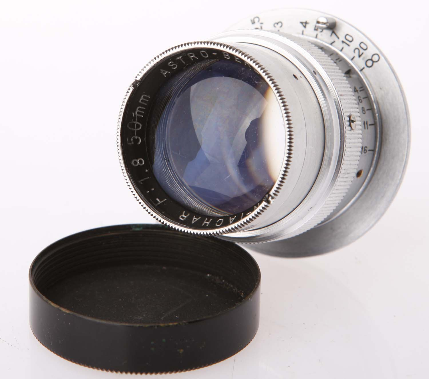 The Pan-Tachar is a lens of German optics maker Astro-Berlin. This is a 1:1,8/50 mm specimen with the serial number 32734 and a Leica M39 mount.